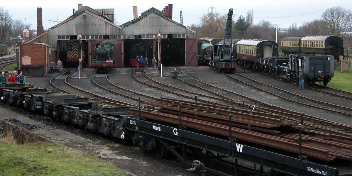 A general view: Didcot Railway Centre. The main building is the engine sheds. Visible inside is a BR 08 class shunter, a GWR class 45xx Prairie tank. The running track is off to the right of the picture. The tea shop is off to the left. Behind the engine sheds are the locomotive repair sheds; behind those are the carriage sheds.